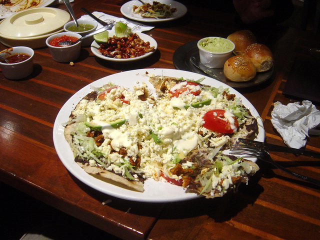 A tlayuda.